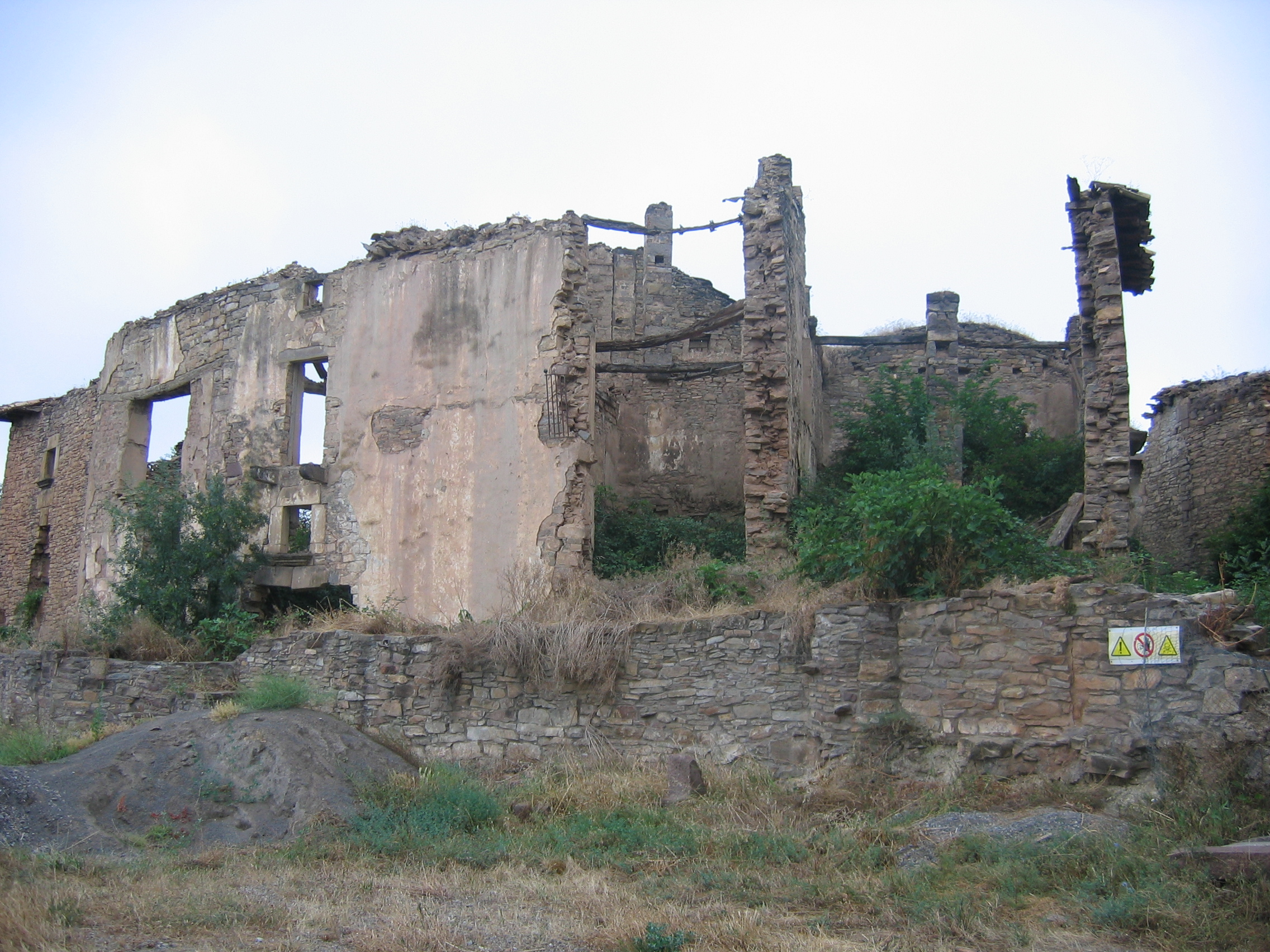 Left Building in Ruesta